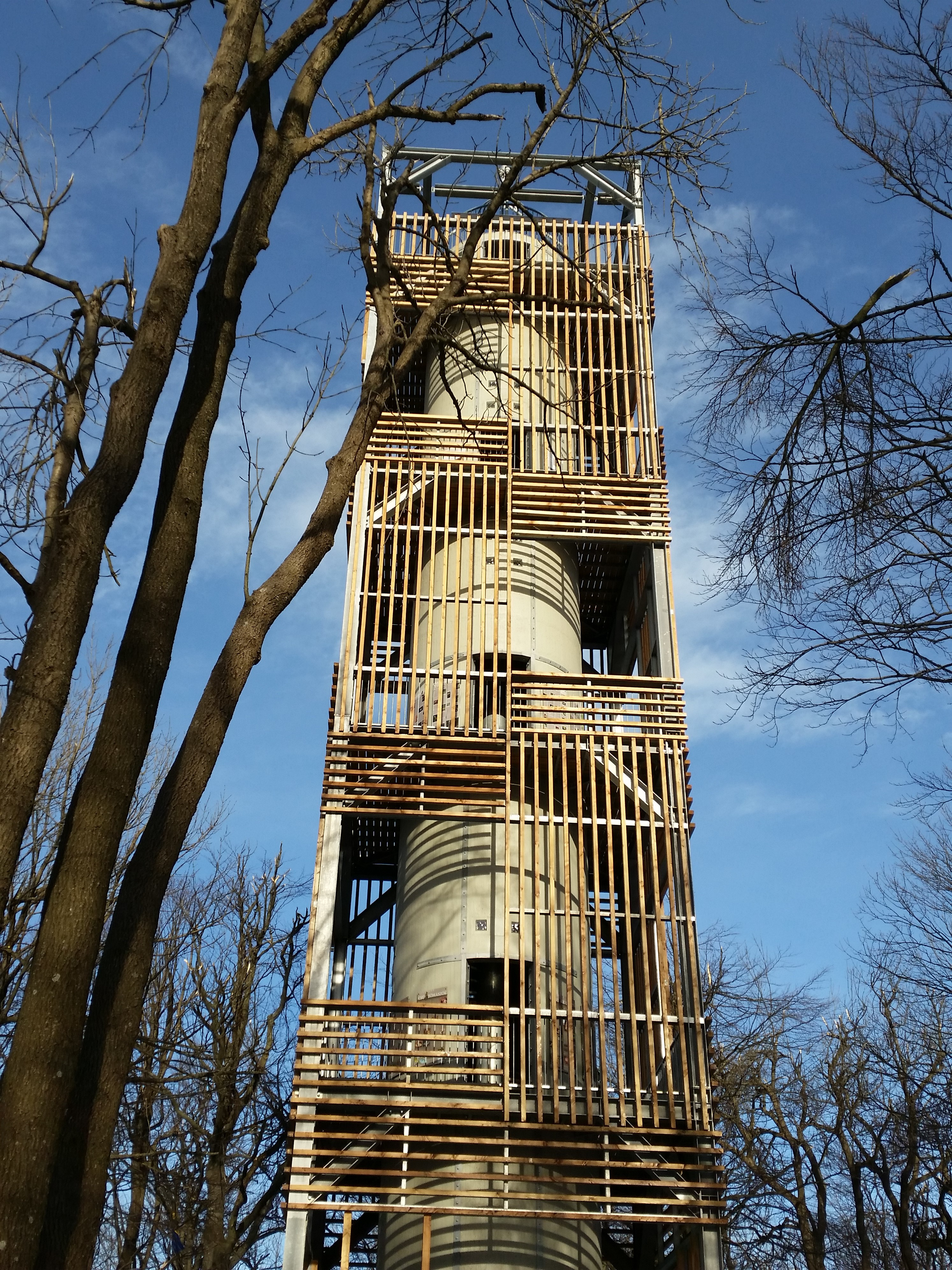 Csóványos observation tower